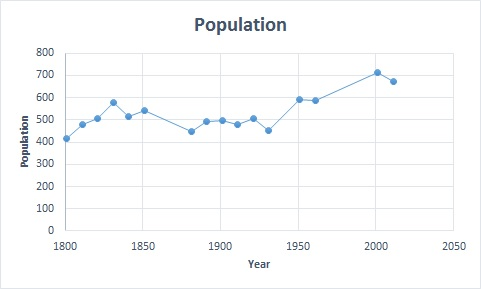 Population of Preston-next-Wingham according to Census data from 1881 to 2011